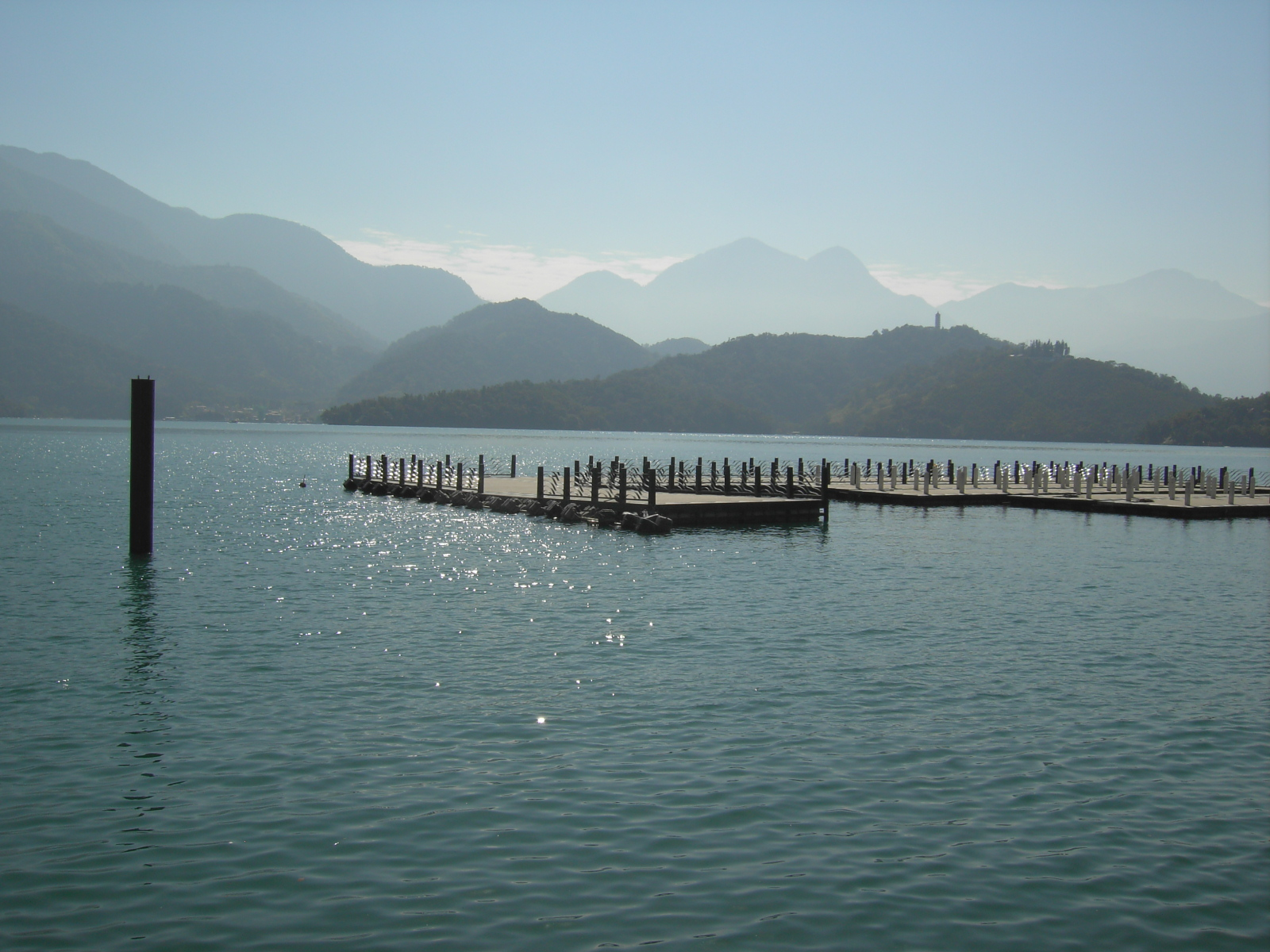 Sun Moon Lake shore, 2007.